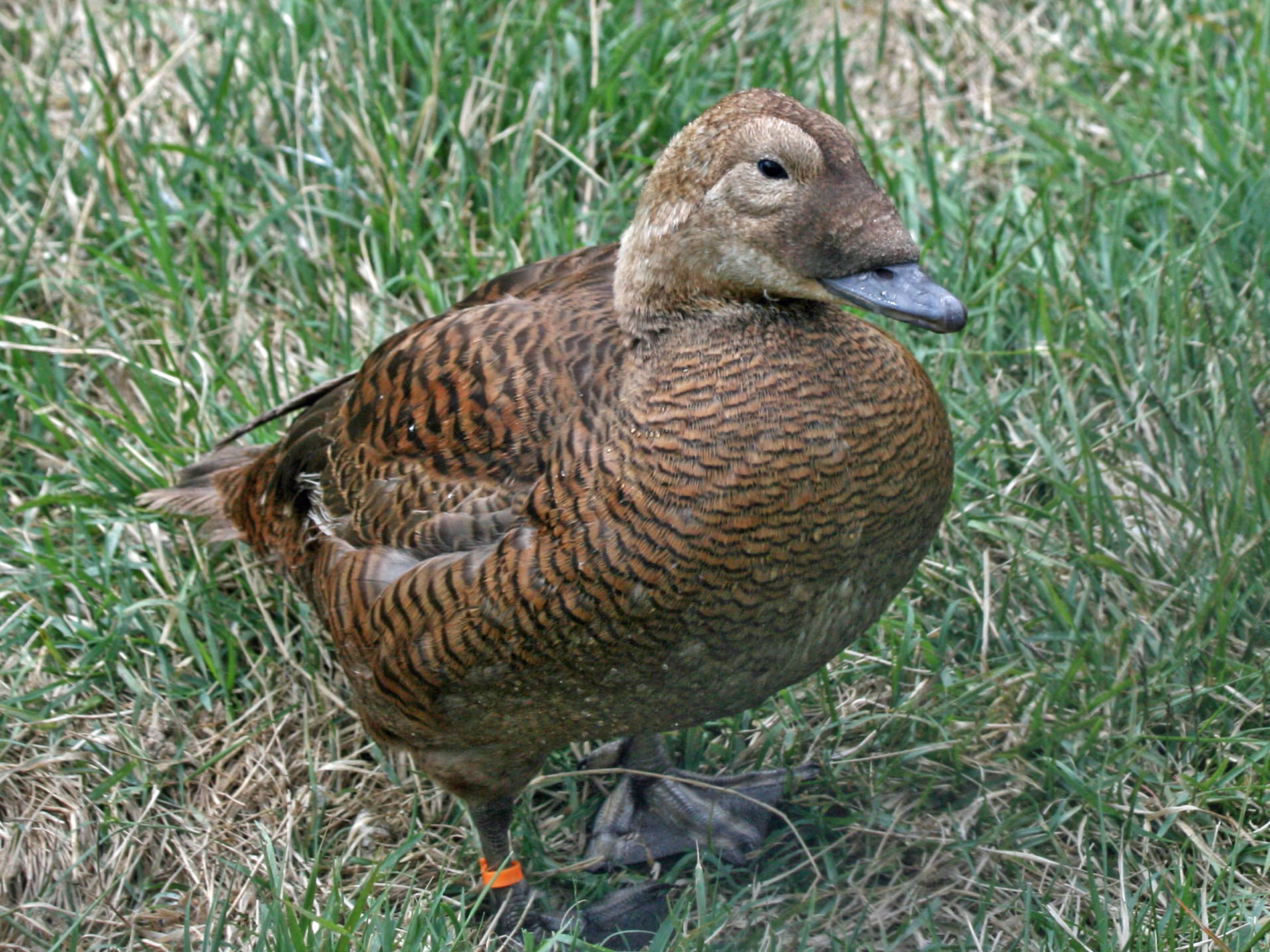 Spectacled Eider (Somateria fischeri) - Sylvan Heights Waterfowl Park, Scotland Neck, North Carolina